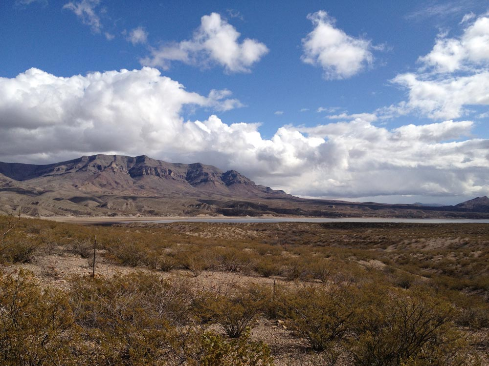 Caballo Lake and the Caballo Mountains in Sierra County, southern New Mexico, USA. Taken from "Old Highway" 187 (east of Interstate I25) looking east.